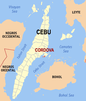 Map of Cebu showing the location of Cordoba